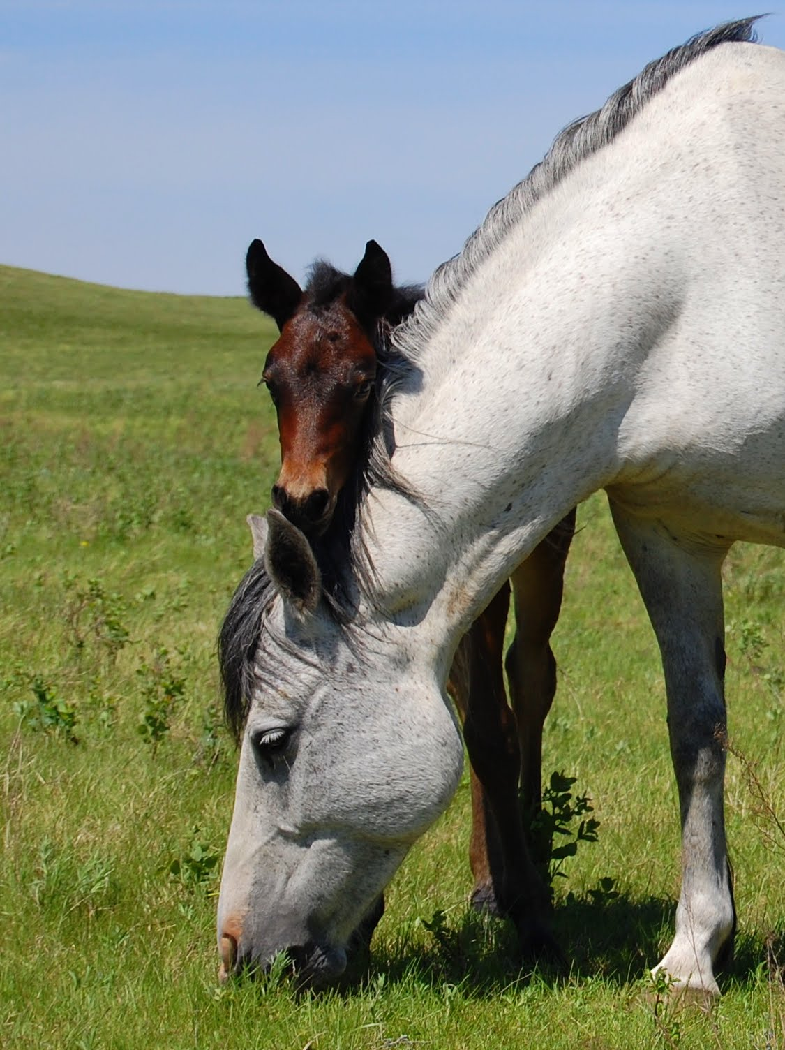 A Nokota mare and her few day old colt at the Kuntz Ranch near Linton, North Dakota